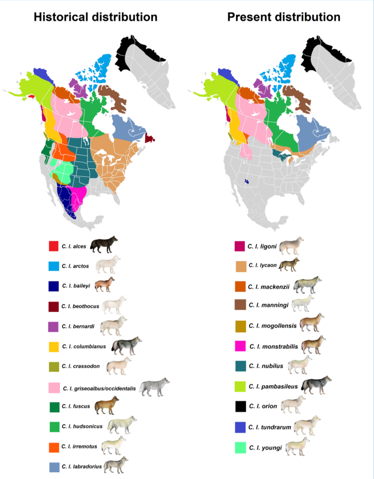 Historical and present distribution of North American grey wolf subspecies based on the range map present in Edward A. Goldman's The wolves of North America Vol. II (1944). Most are still recognised by MSW3 (2005). Not included are subspecies historically recognised as Canis rufus, regardless of MSW3 recognition. Extinct C. l. alces left blank on account of missing pelts, thus leaving colour a mystery.